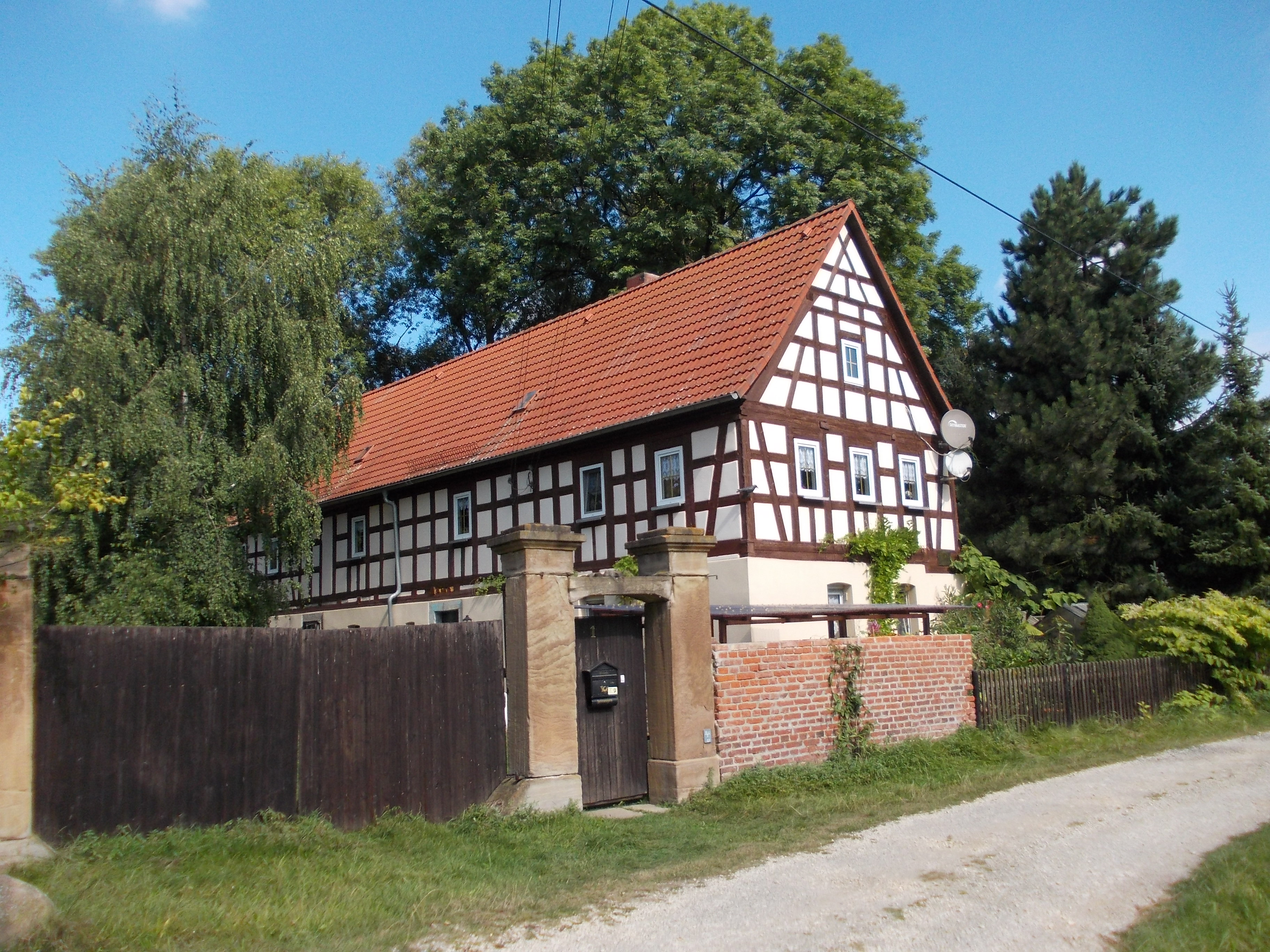 Half-timbered house at Wiesenweg (No. 1) in Priesen (Meineweh, district of Burgenlandkreis, Saxony-Anhalt)